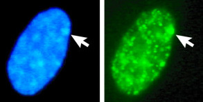 Part of the original figure legend, adapted to this clipping: The interphase inactive X chromosome: macroH2A1 association. Photomicrograph example of normal fibroblast that was FITC-labeled using antisera to histone macroH2A1. Arrow points to sex chromatin in DAPI-stained cell nucleus, and to the corresponding sex chromatin site in the FITC-labeled photo.